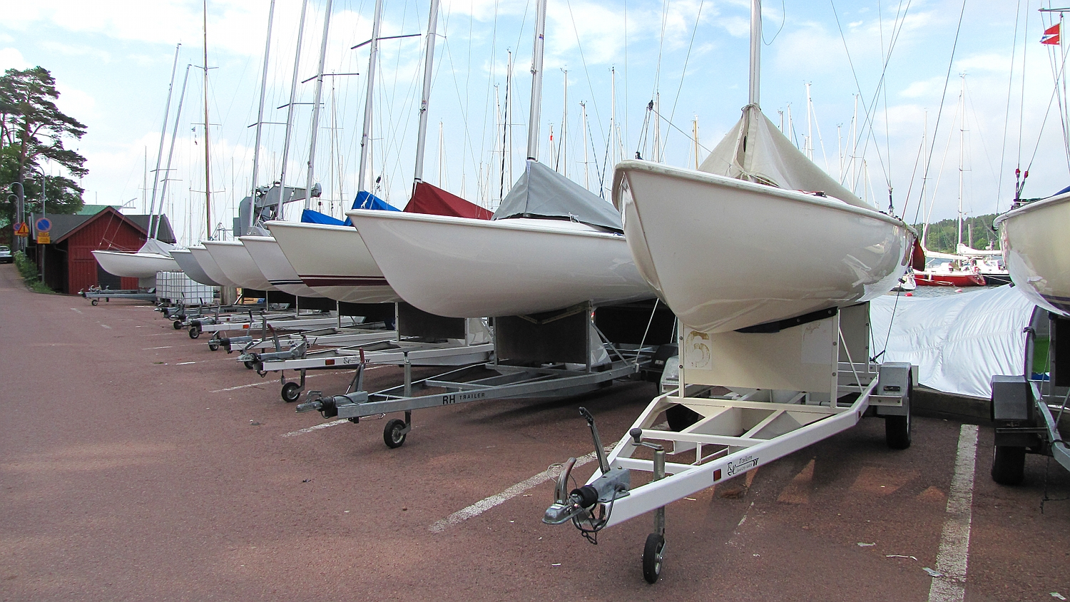 Monark 606, sailing boat designed by Pelle Pettersson. Photo taken at ÅSS Marine, Åland Islands